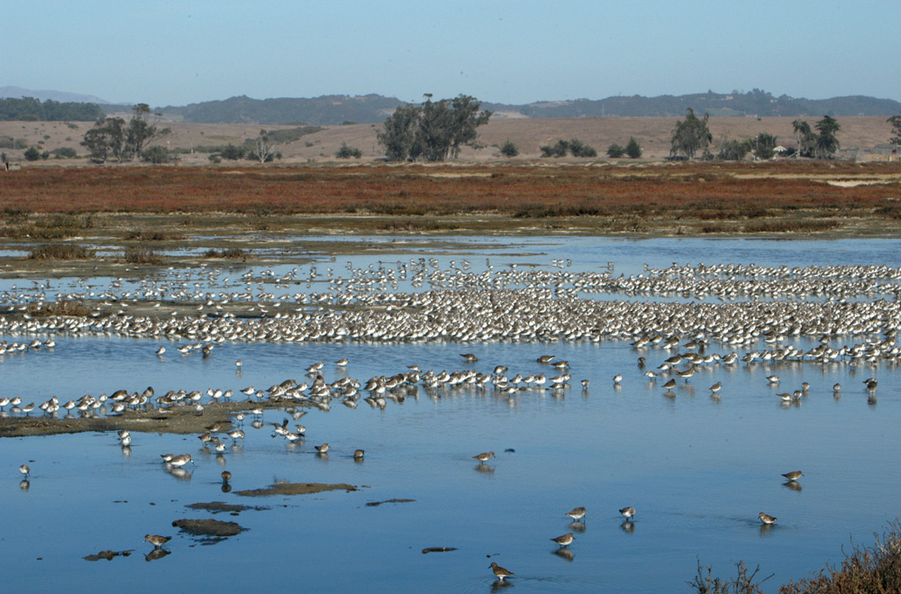 Elkhorn Slough National Estuarine Research Reserve. Located north of Monterey, California, this site is renowned for outstanding birding opportunities. There are a total of 28 National Estuarine Research Reserves located in 22 states and Puerto Rico. The reserves protect more than 1.3 million coastal and estuarine acres. America's Great Outdoors: Discover NOAA's Sanctuaries and Reserves Explore Your America!